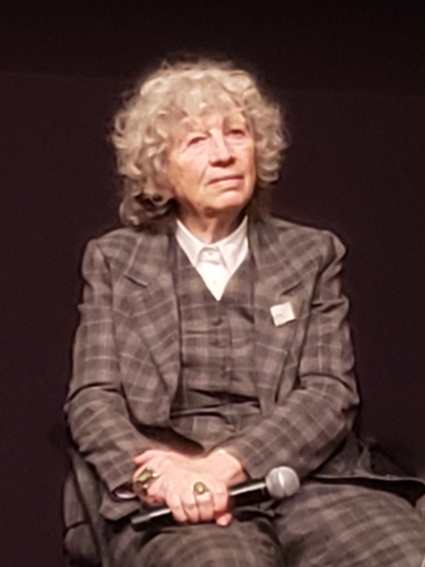 Ulrike Ottinger at a Q&A session for Ticket of No Return at the Berkeley Art Museum and Pacific Film Archive in Berkeley, California, United States